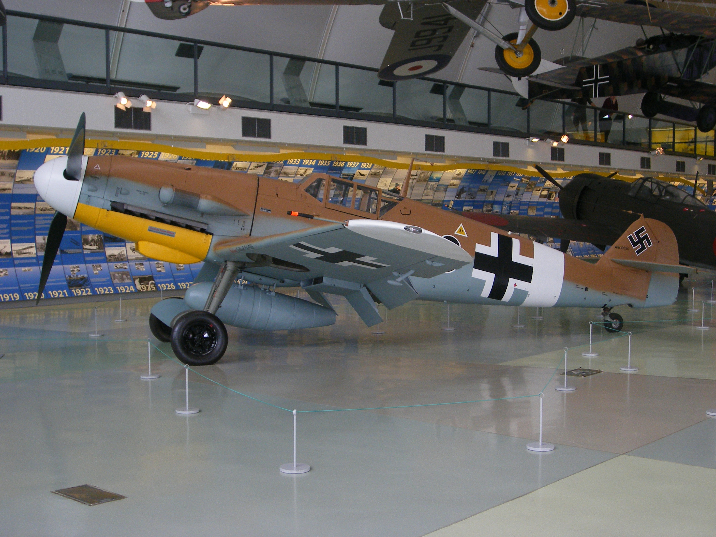 Bf 109G-2/Trop 'Black 6', Now on static display RAF Hendon London